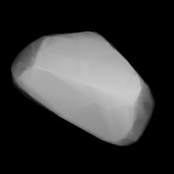 3D convex shape model of 497 Iva, computed using light curve inversion techniques. J. Hanuš, J. Ďurech, M. Brož, B. D. Warner (June 2011). "A study of asteroid pole-latitude distribution based on an extended set of shape models derived by the lightcurve inversion method". Astronomy and Astrophysics 530: A134. ISSN 0004-6361. arXiv